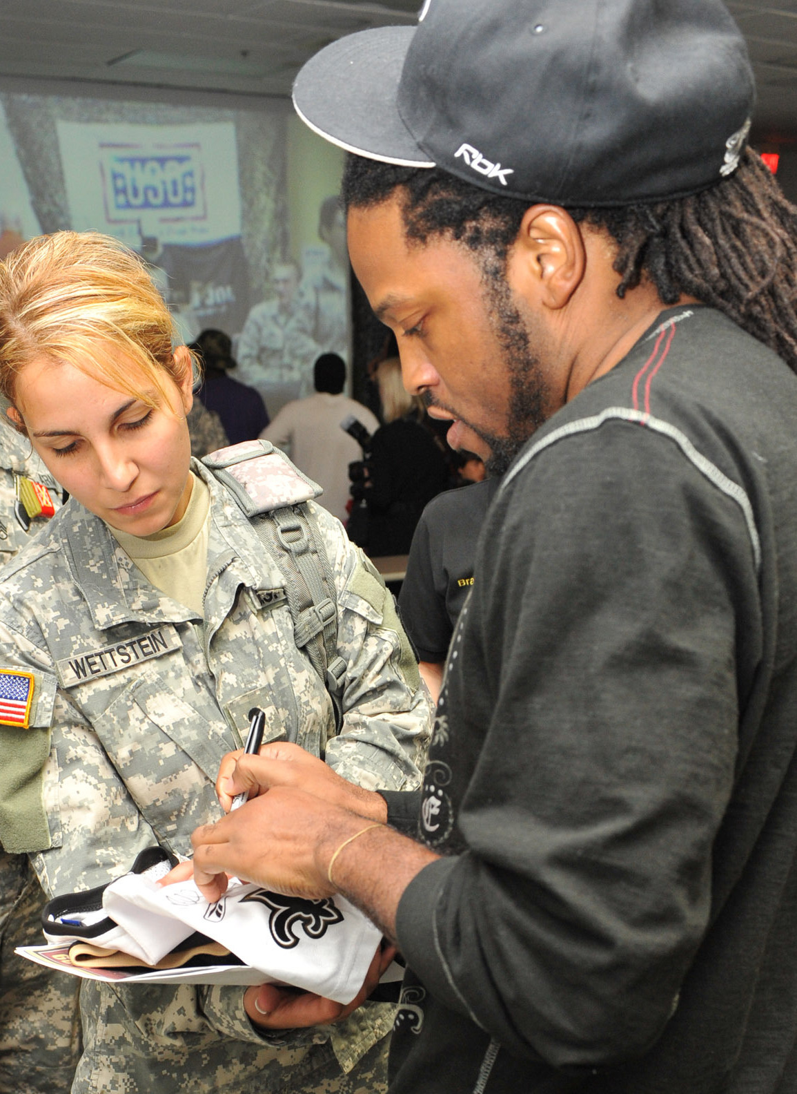 Louisiana National Guardsmen Spc. Andrea Wettstein of the 1021st Engineering Company Vertical, receives an autograph from New Orleans Saints Cornerback Mike McKenzie while participating in the Pros vs. GI Joe's video game competition against Louisiana troops currently serving in Iraq at the New Orleans Saints training facility.